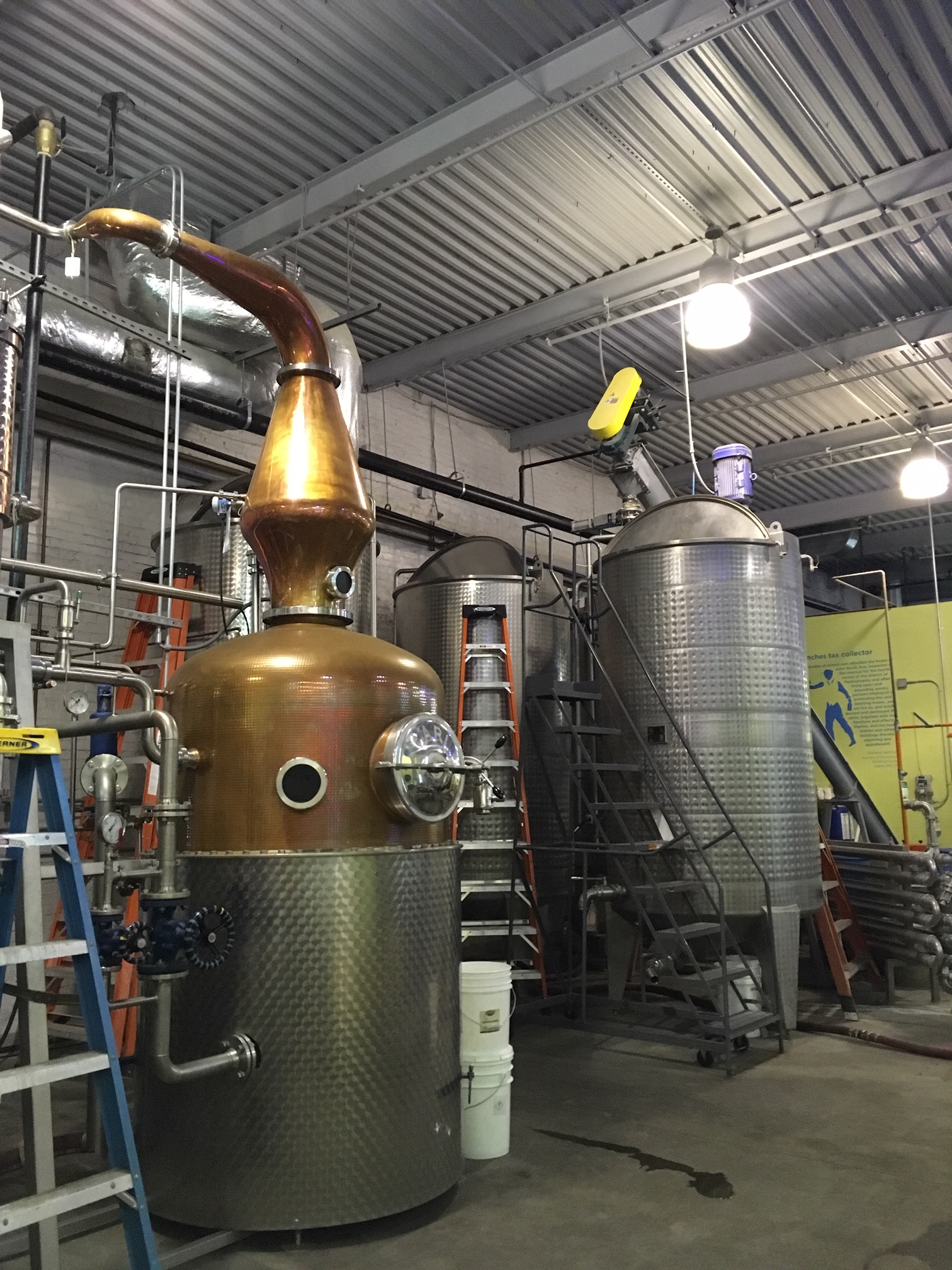 Production area of Wigle Whiskey in the Wigle Distillery in Pittsburgh, PA